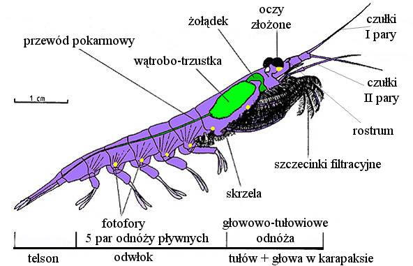 Picture from commons: Krillanatomykils.jpg. Now with pl text. antarctic krill anatomy graph by uwe kils gfdl modified and translated from Kils & Klages 1979 Translated pl Aung